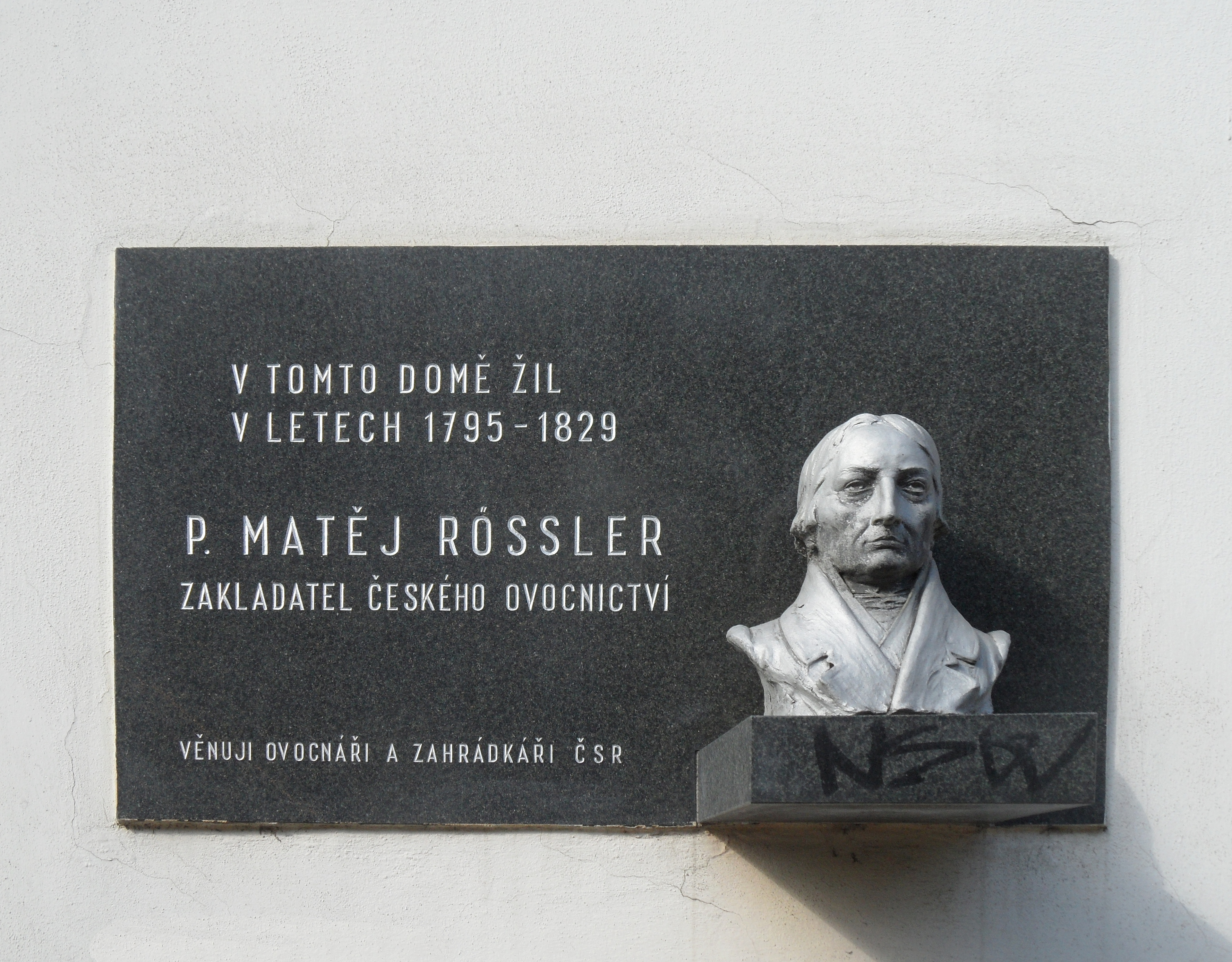 Poděbrady, Detail of Memorial Plaque and Bust of Matěj Rössler at Deanery (Palackého street 72). Nymburk District, the Czech Republic.